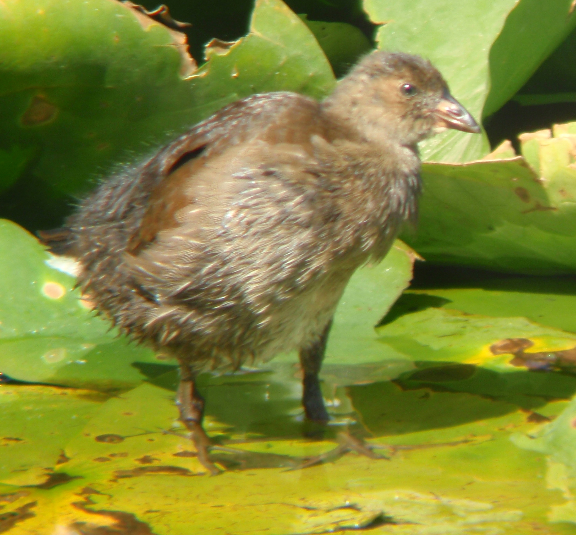 A juvenile Spot-flanked Gallinule in the National Botanical Gardens in Vina del Mar, Chile.